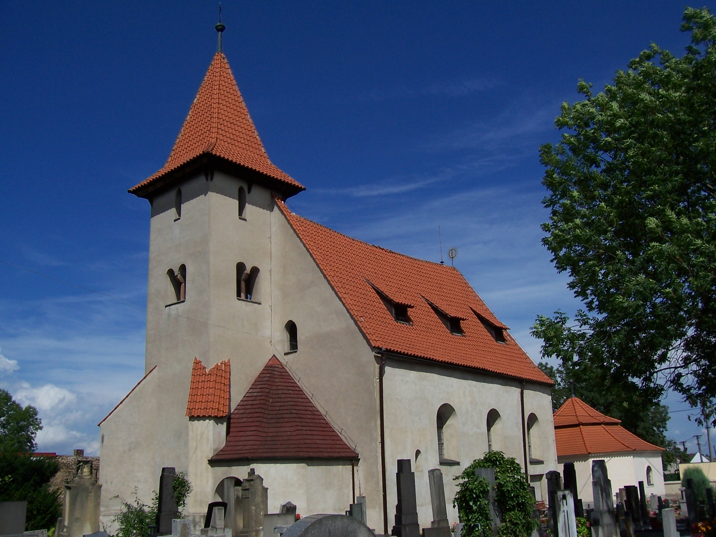 Church of St Stephen in Malín (part of Kutná Hora, Czech Republic. Originally Romanesque, rebuilt in Gothic style in 14th-15th centuries.